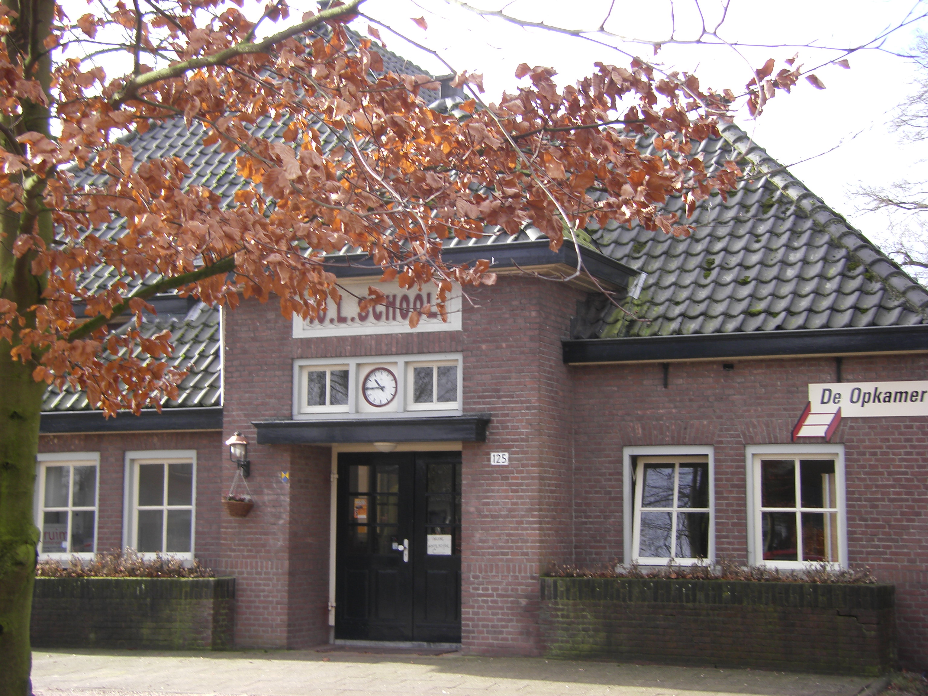 Former Primary School of Oeken, the Netherlands